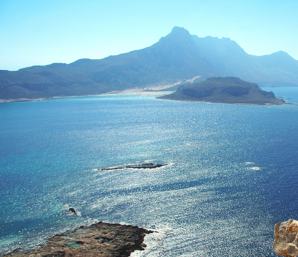 Arnaouti Rock (the small one), in the background tigani; Kissamos, Crete, Greece